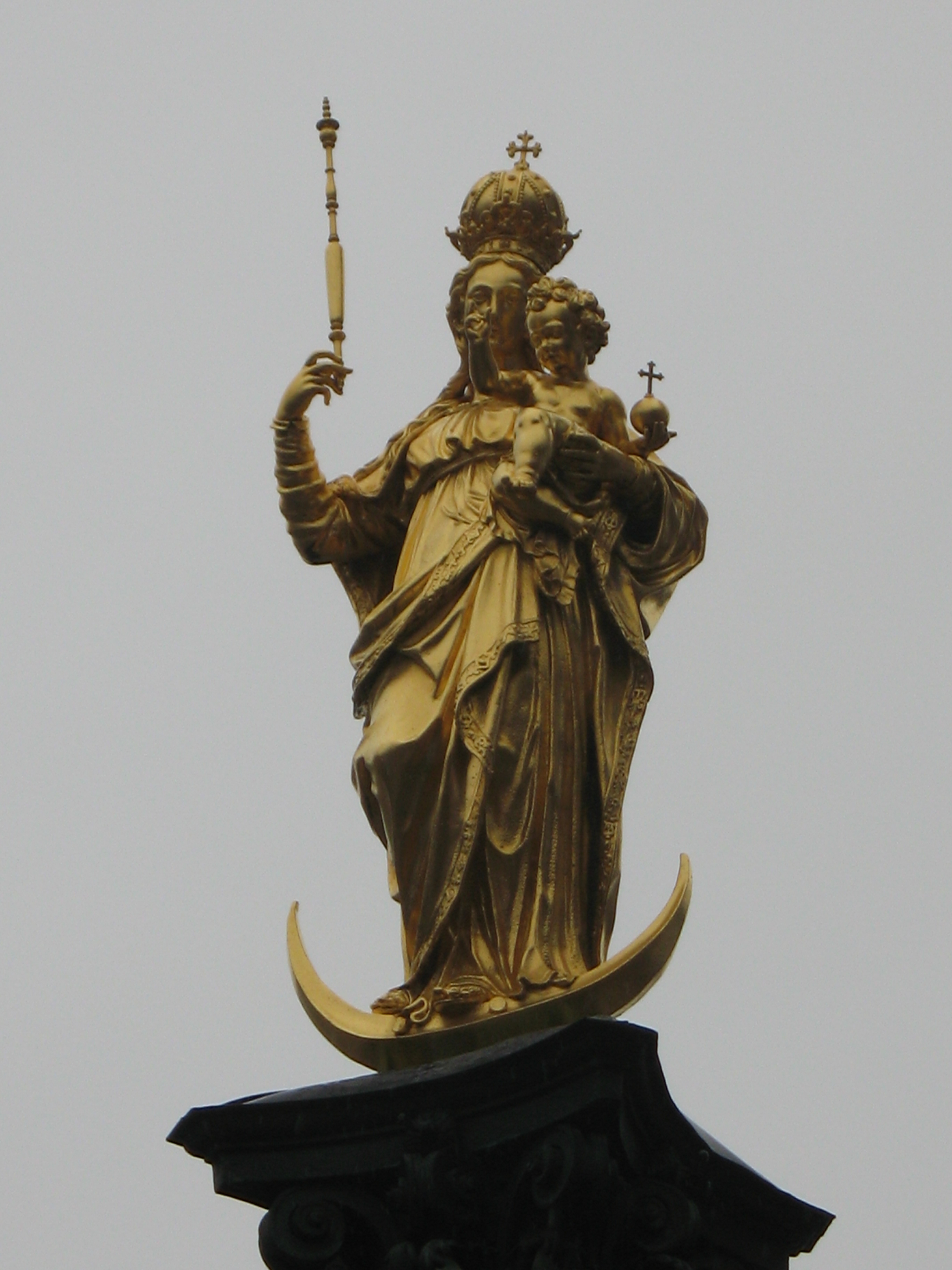 Mary Column, Munich, Germany